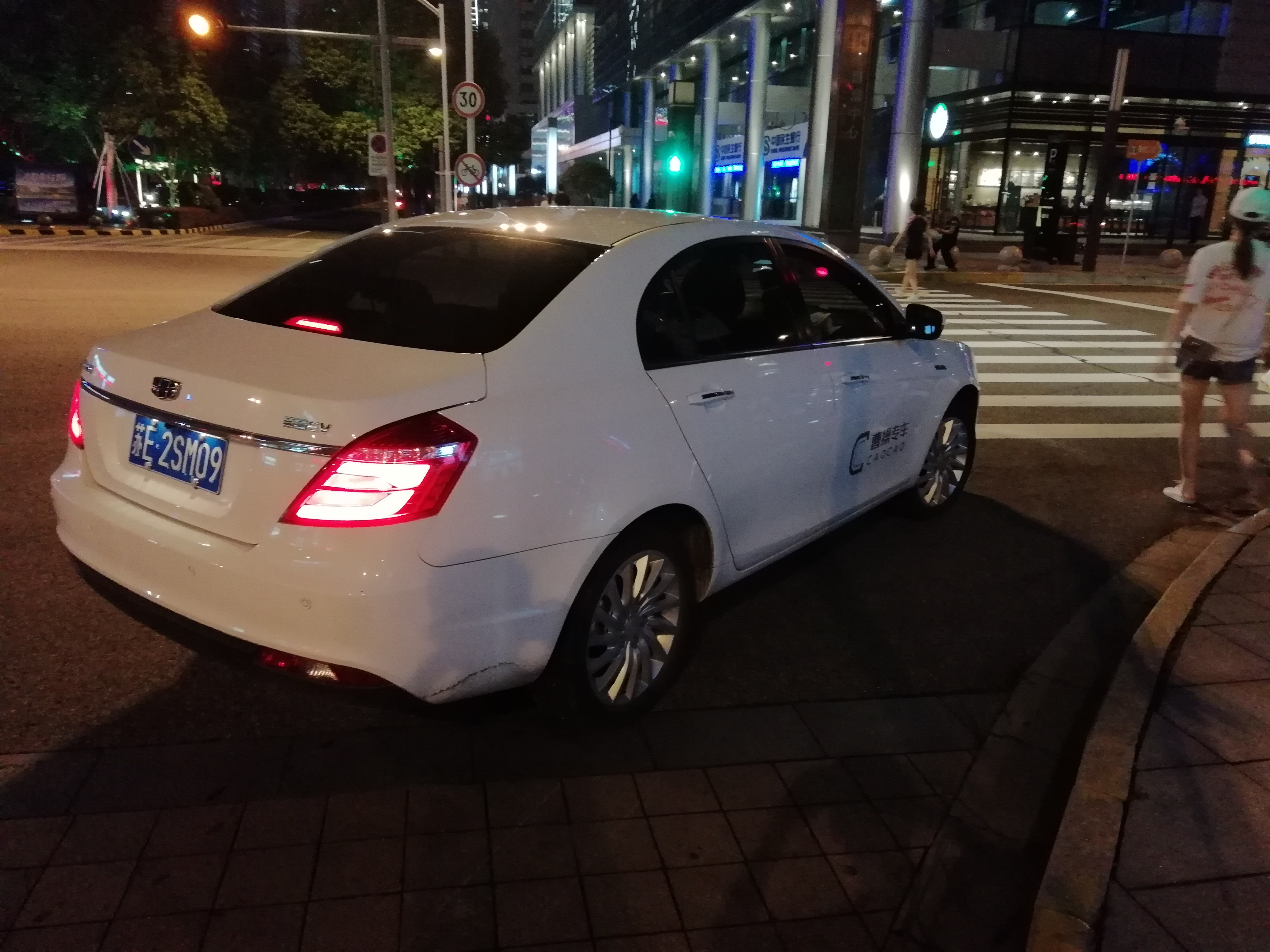 A Geely Emgrand EV with Caocao Logo, taken in Suzhou on August 18, 2018. Caocao is a ride-sharing platform, owned by Geely Group. 中文（中国大陆）: 印有曹操专车标志的吉利帝豪EV在苏州园区运行，摄于2018年8月18日。曹操专车是吉利集团旗下的网约车品牌。